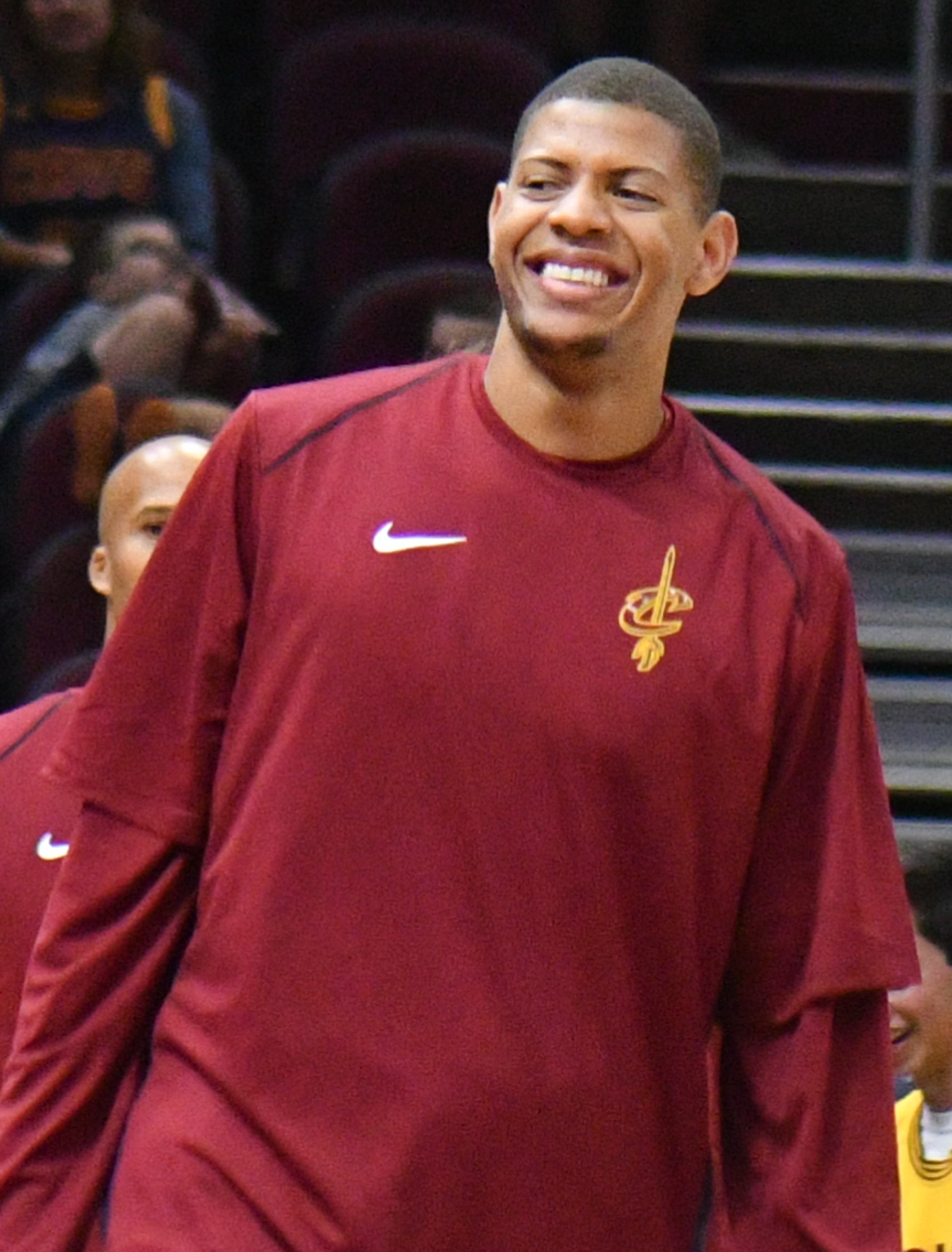 Edy Tavares